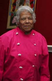 Restauranteur Leah Chase. Cropped from White House photo by Joyce N. Boghosian